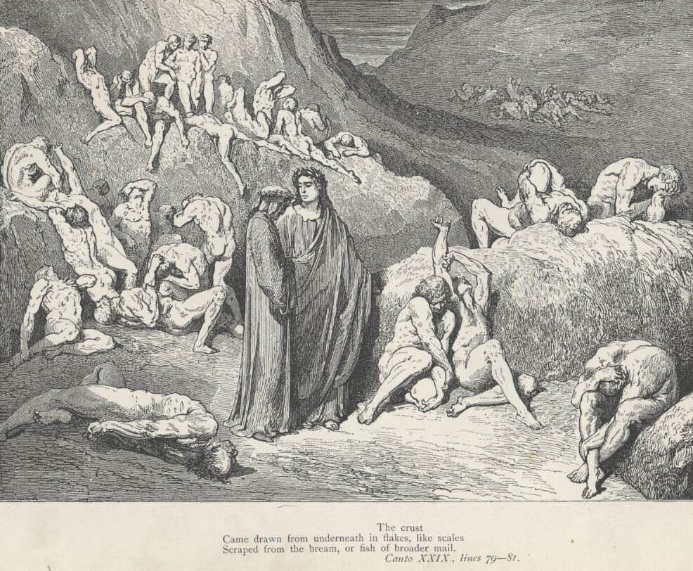 Illustration by Gustave Doré for The Divine Comedy by Dante, Illustrated, Hell, Volume 01, 1892